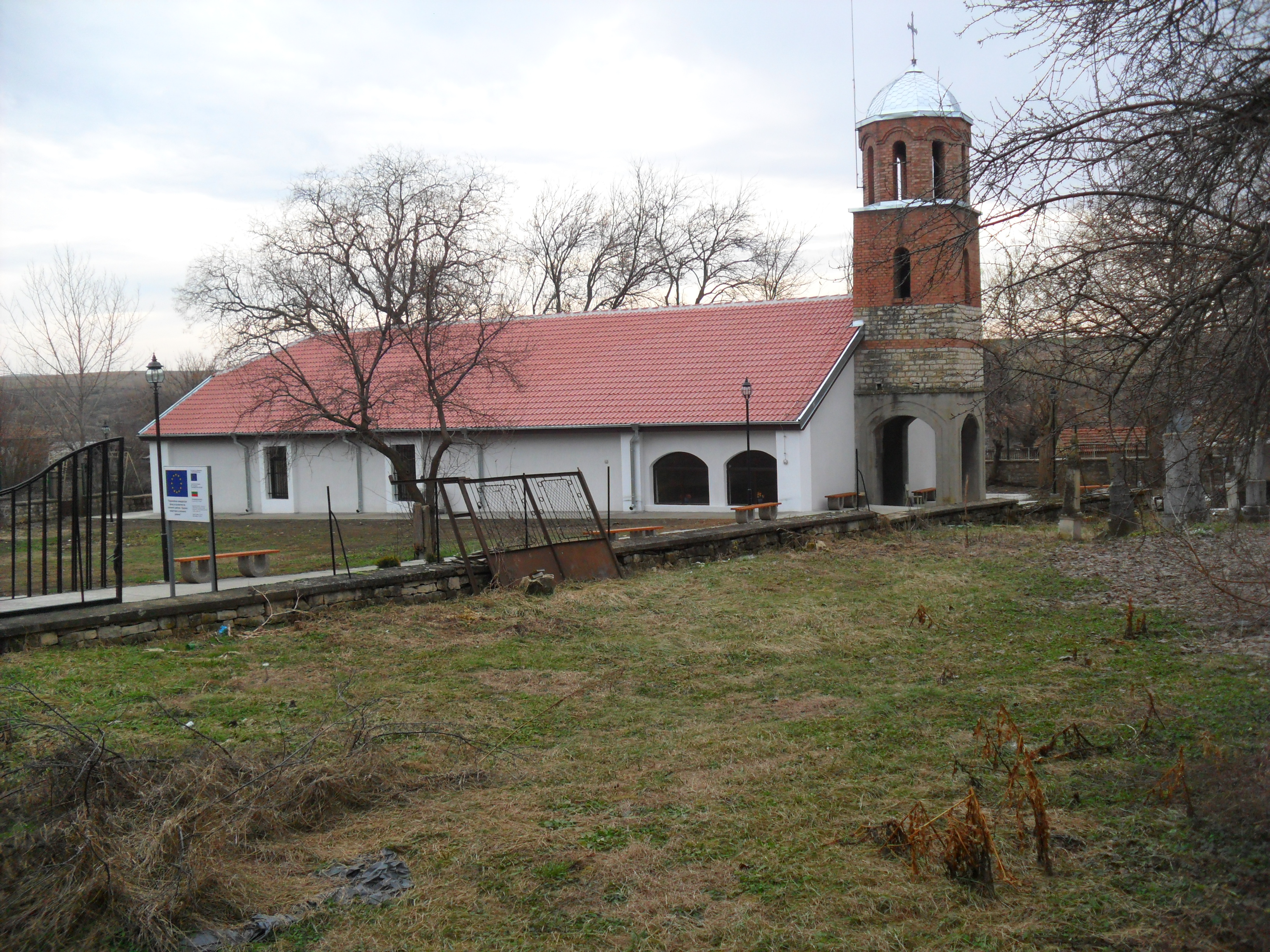 The Orthodox Temple were build in 1838.